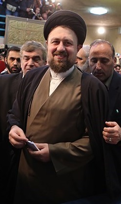 Hassan Khomeini in Jamaran mosque